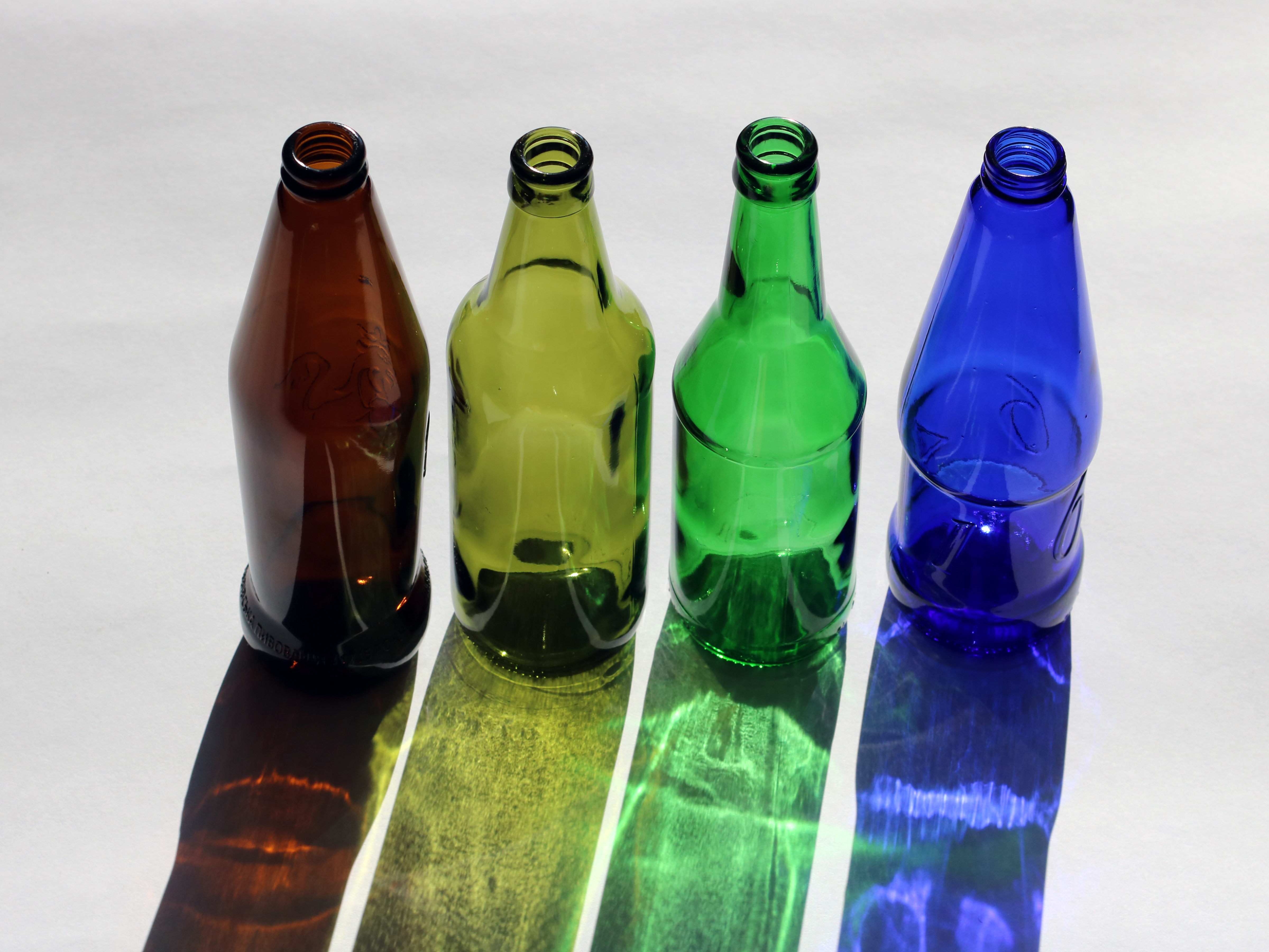 Beer bottles of different colors. From left to right: brown 0.5 l, yellow-green 0.5 l, green 0.4 l, blue 0.46 l.